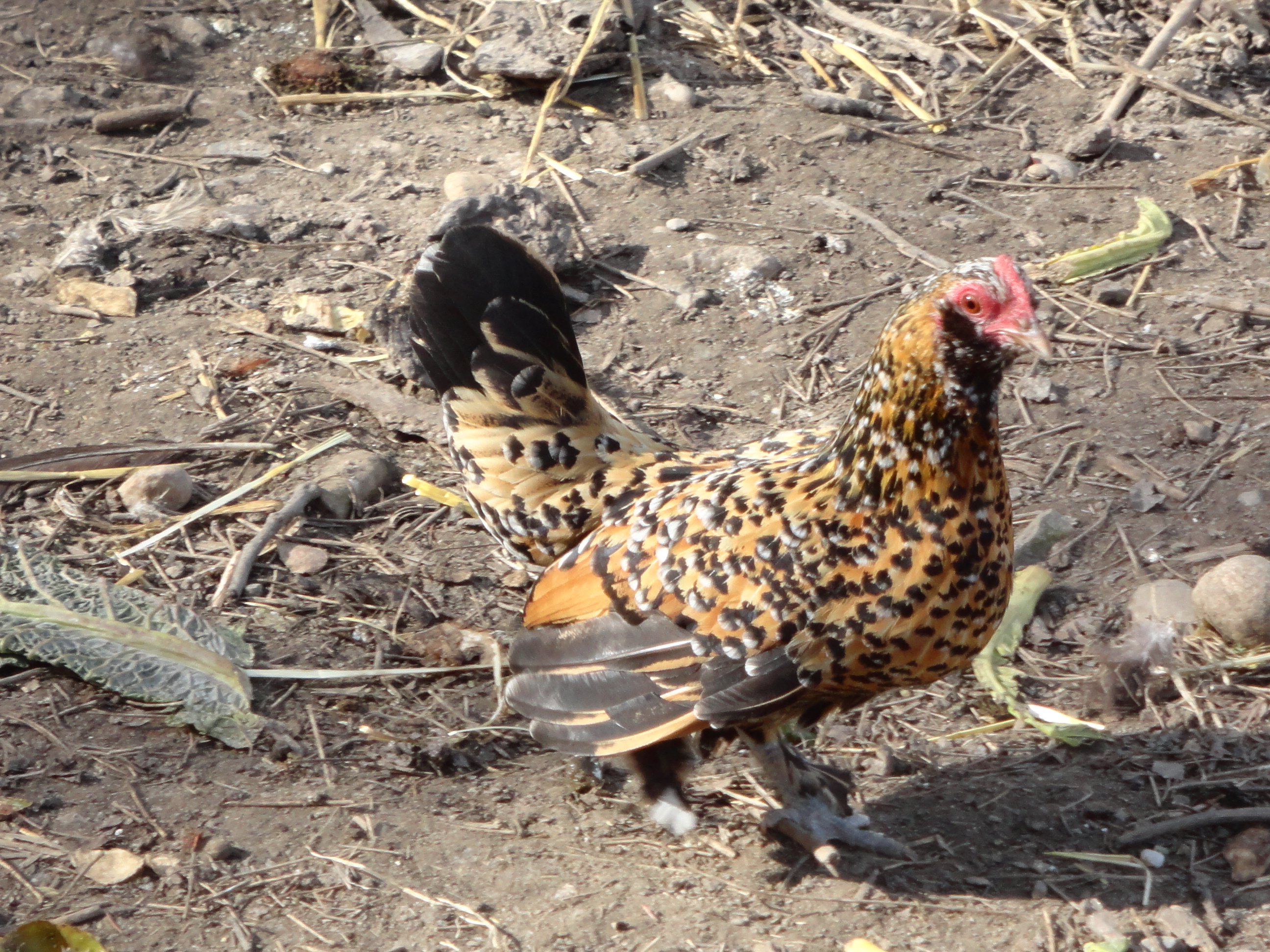 Sabelpoot chicken, Rhône, FranceUnknownUnknown poule sabelpoot (sabelpote), rhône, france